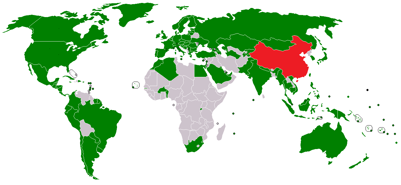 Upload a map with the foreign relations of the Marshall Islands